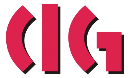 Logotype of the galician trade union CIG